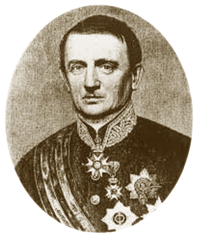 Image of Victor, baron de Tornaco (1805 - 1875), Prime Minister of Luxembourg from 1860 to 1867.